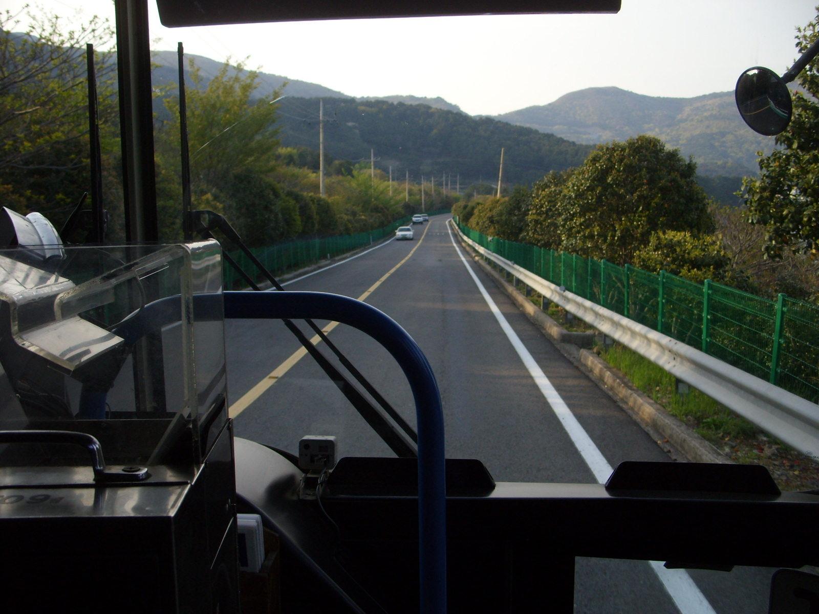 Geojedaero Road in Hakdong, Geojedo Island, Korea.